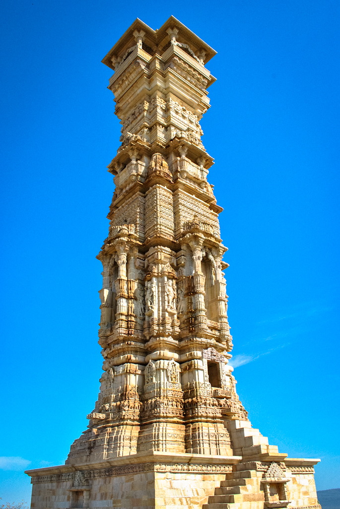 This 75ft high seven storied pillar was built in 12th century AD and dedicated to Shri Adinathji.